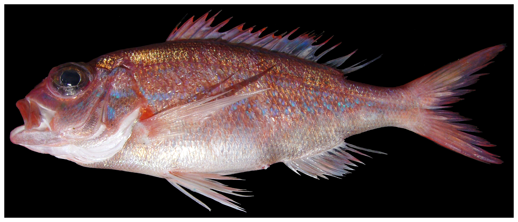 Pristipomoides aquilonaris (Goode & Bean, 1896)—wenchman, 263 mm SL. Photo by W Toller.